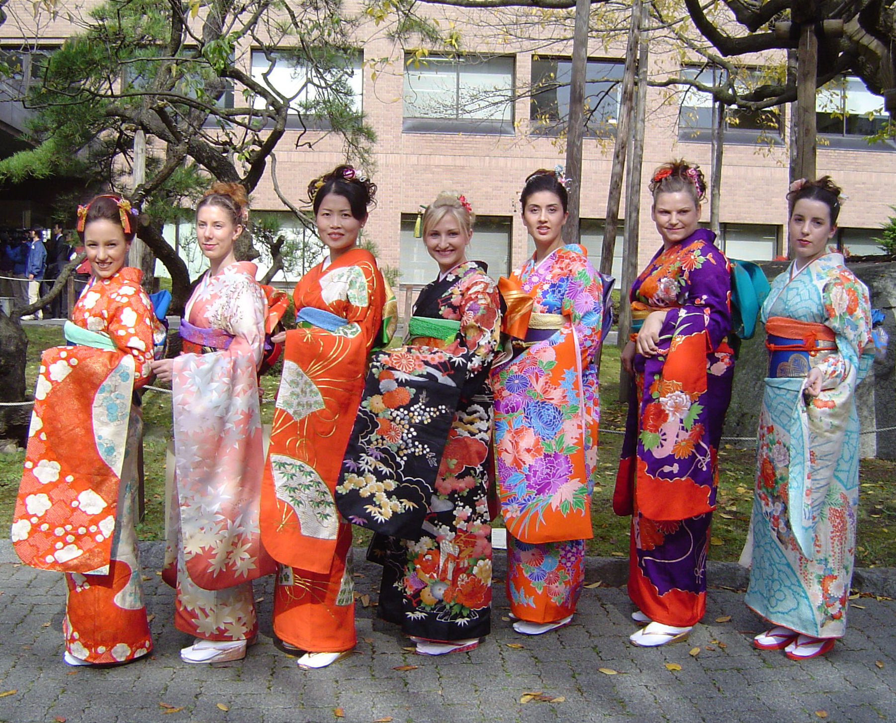 Foreign students (gaijin) in Morioka